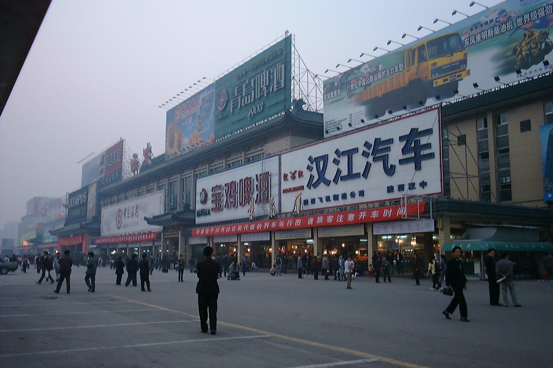 Xian station in 1999